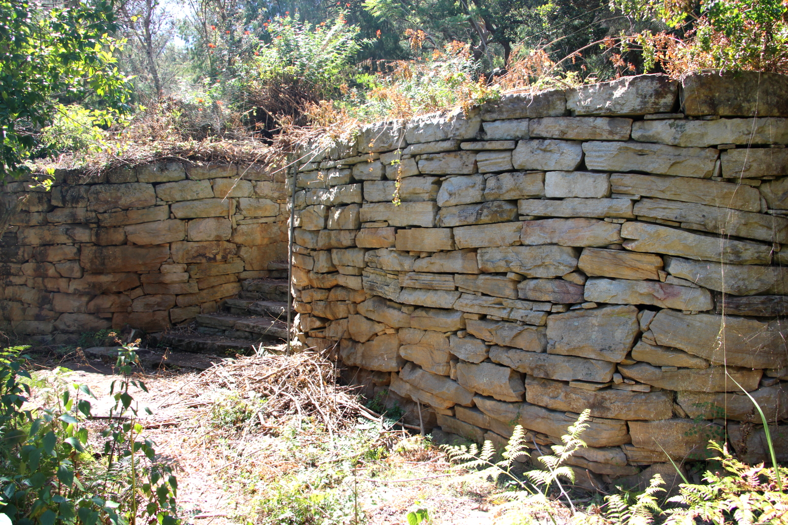 Flint&Steel Guesthouse entrance, Ku-ring-gai Chase National Park, NSW, Australia.